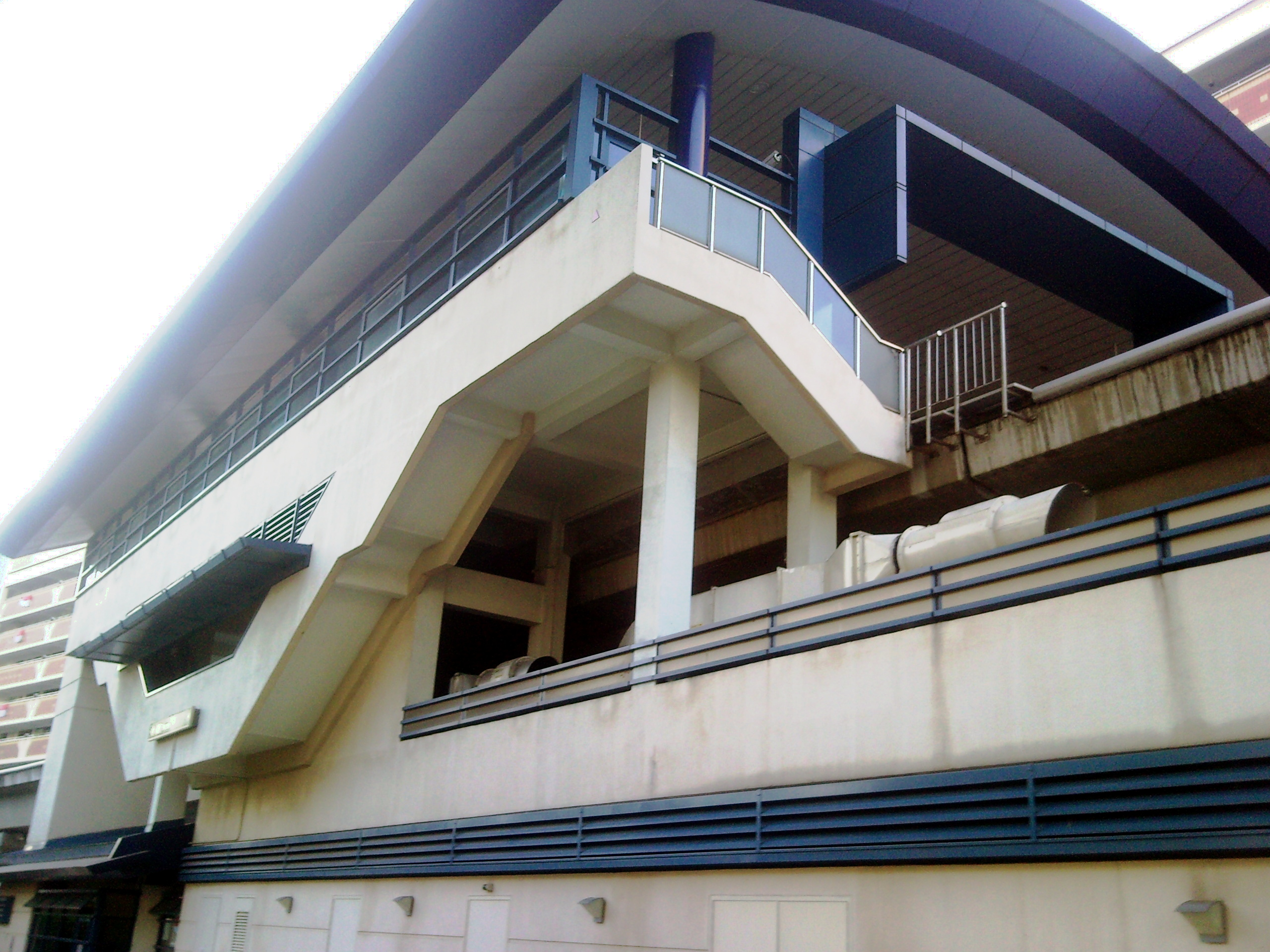 Exterior view of Phoenix LRT station.